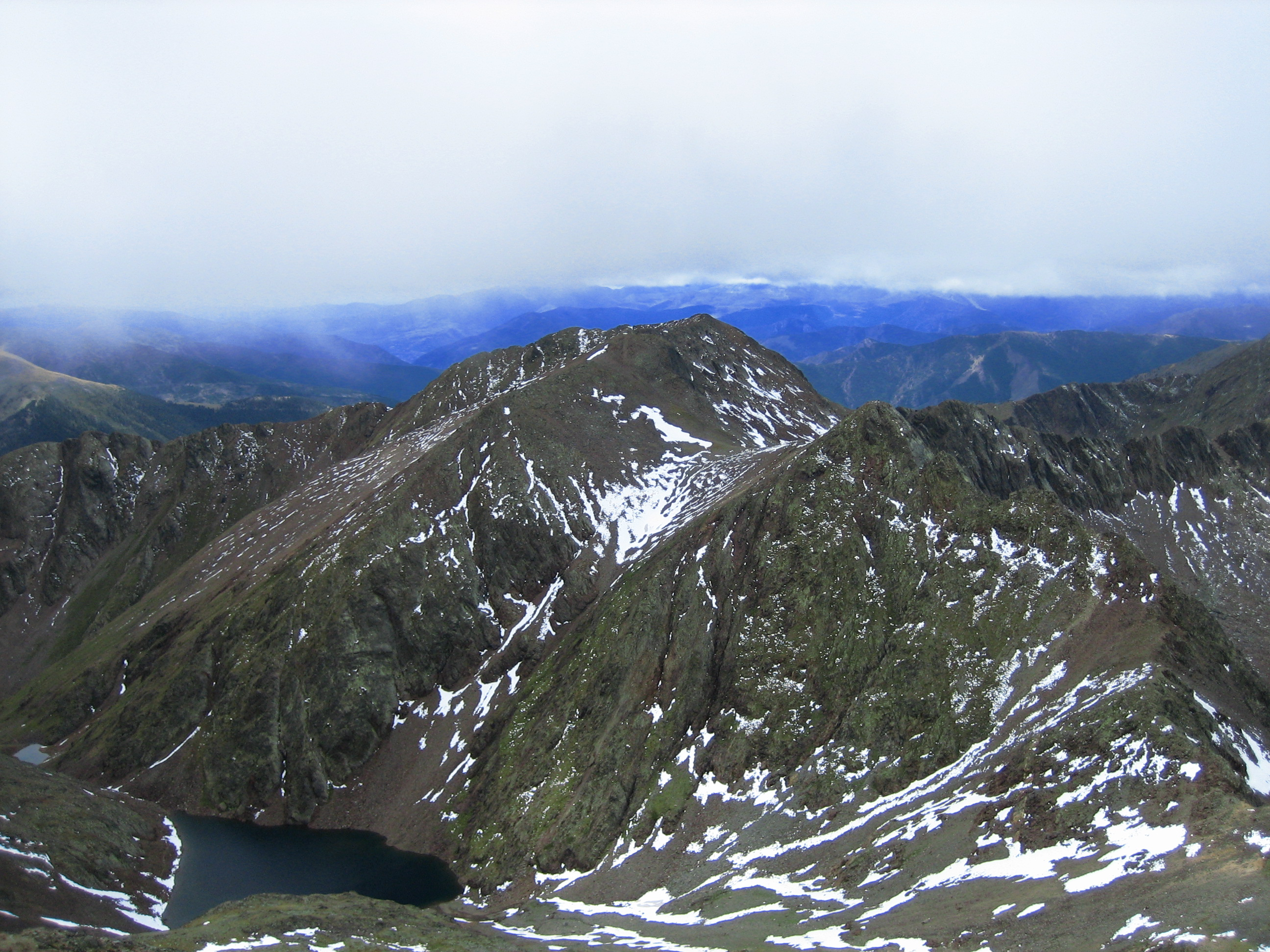 View from the Coma Pedrosa summit, Arinsal, La Massana, Andorra, with Estany Negre lake.